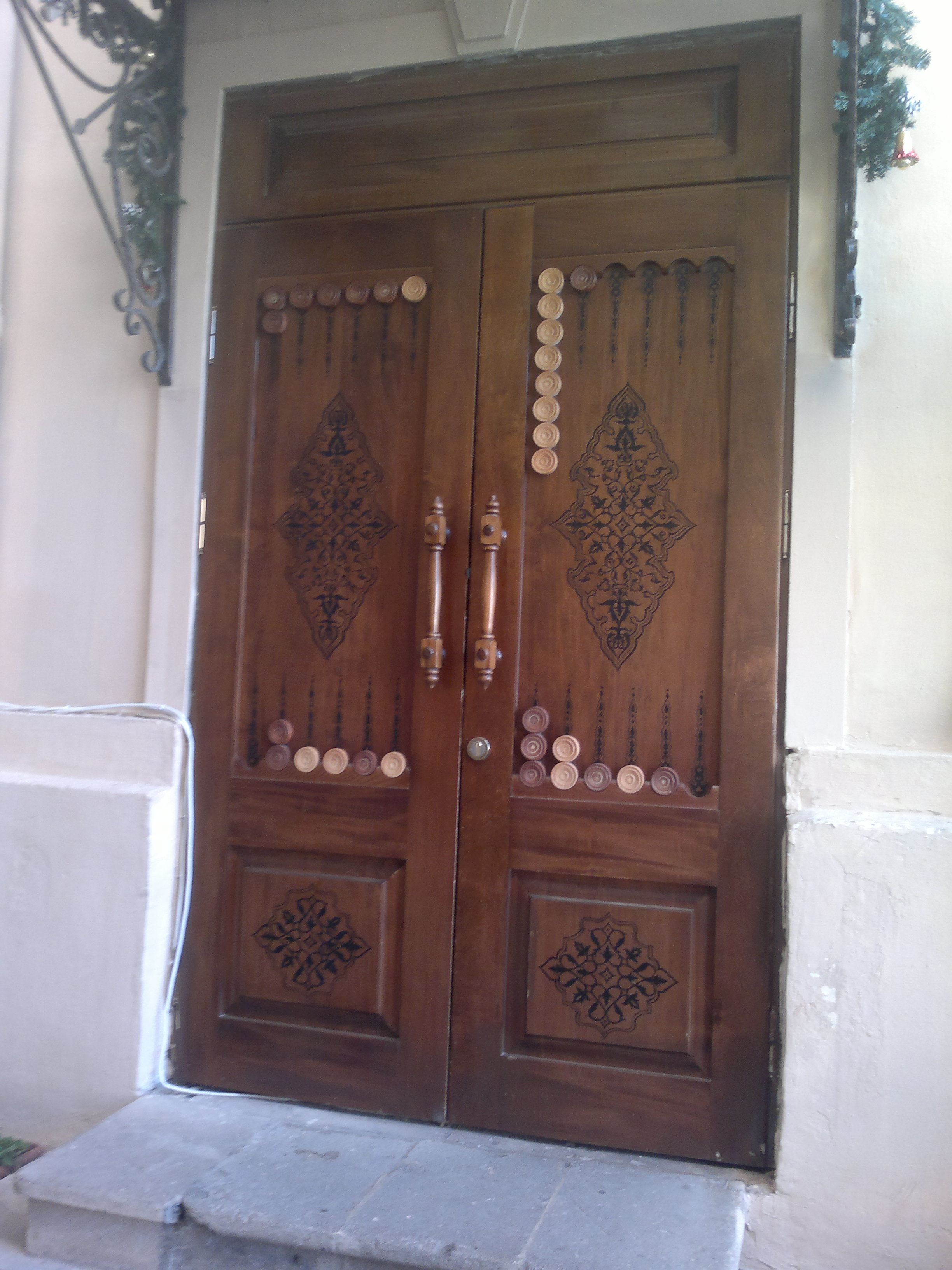 Door designed like a deck of Backgammon game in Ichery Sheher, Baku.